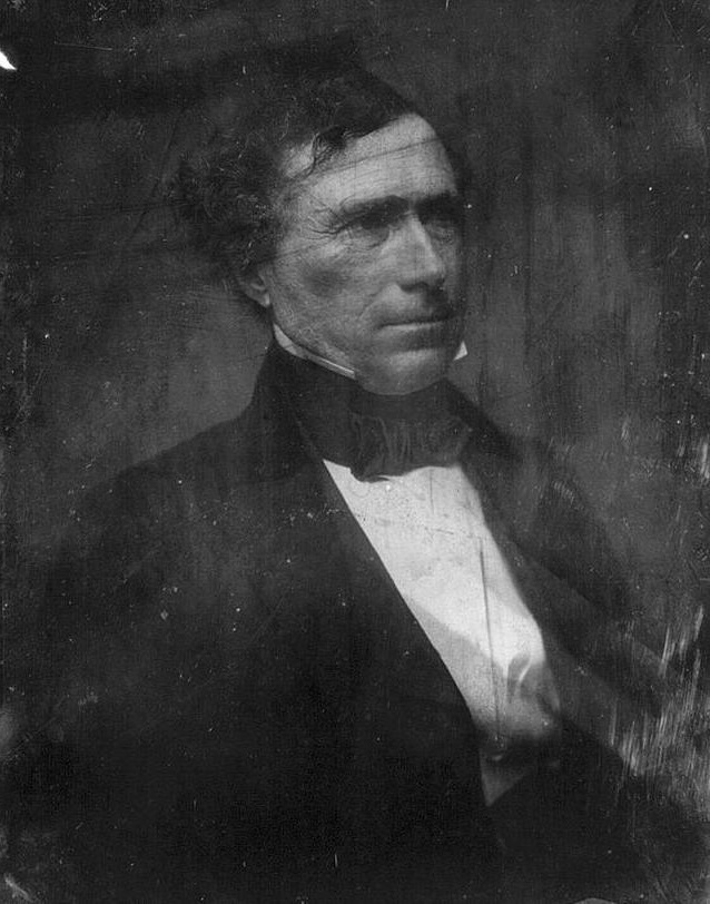 Daguerreotype of Franklin Pierce (1804–1869), 14th president of the United States. Pierce, a Democrat, served from 1853 to 1857 and was rejected by his party for a second term; his major acts as president include the Gadsden Purchase and the Kansas–Nebraska Act. The image is part of the Daguerreotype Collection of the Library of Congress. The entry describes this version as a "b&w film copy neg. pre-1992".